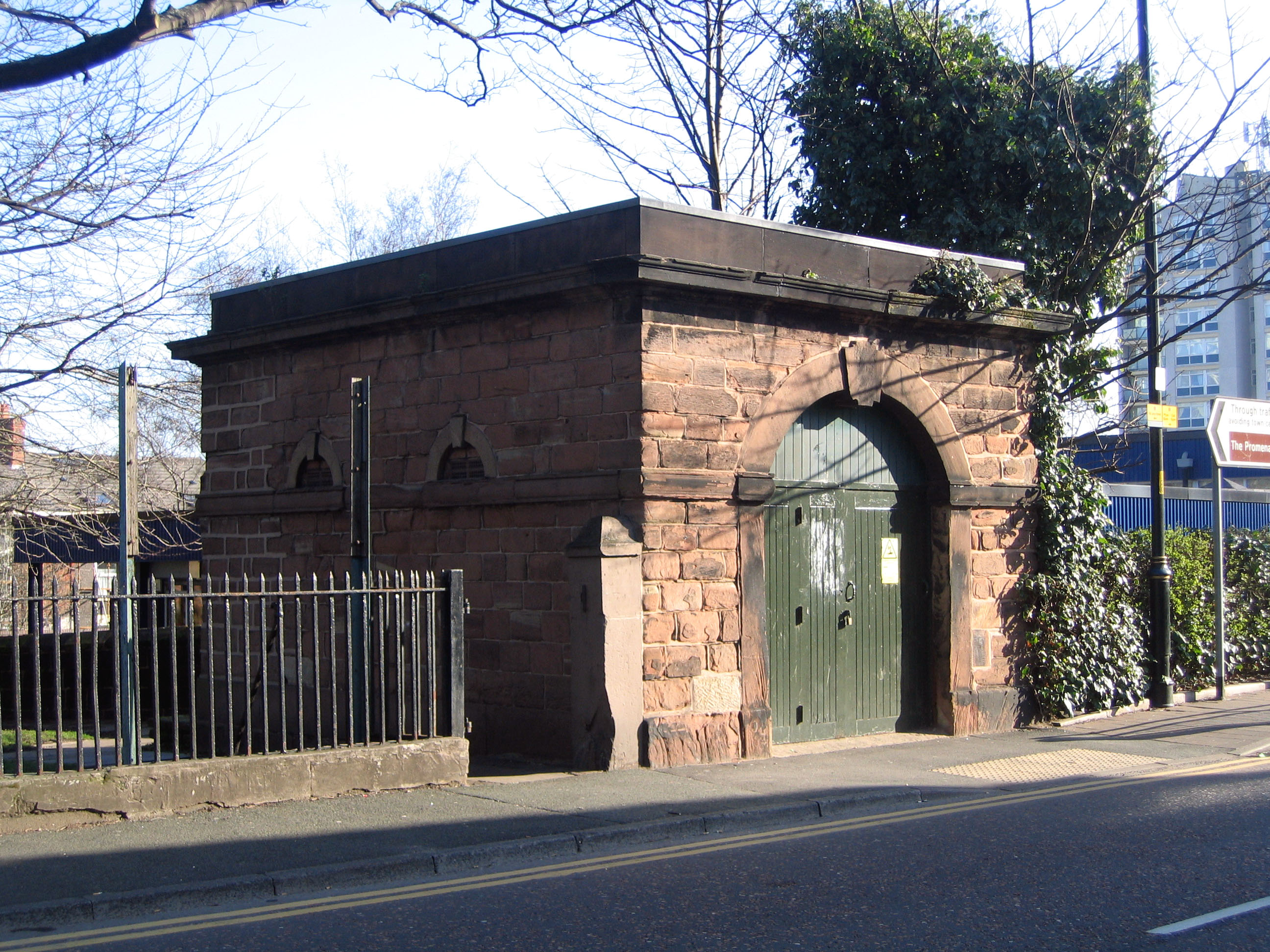 Photograph taken by me on 14 March 2007.